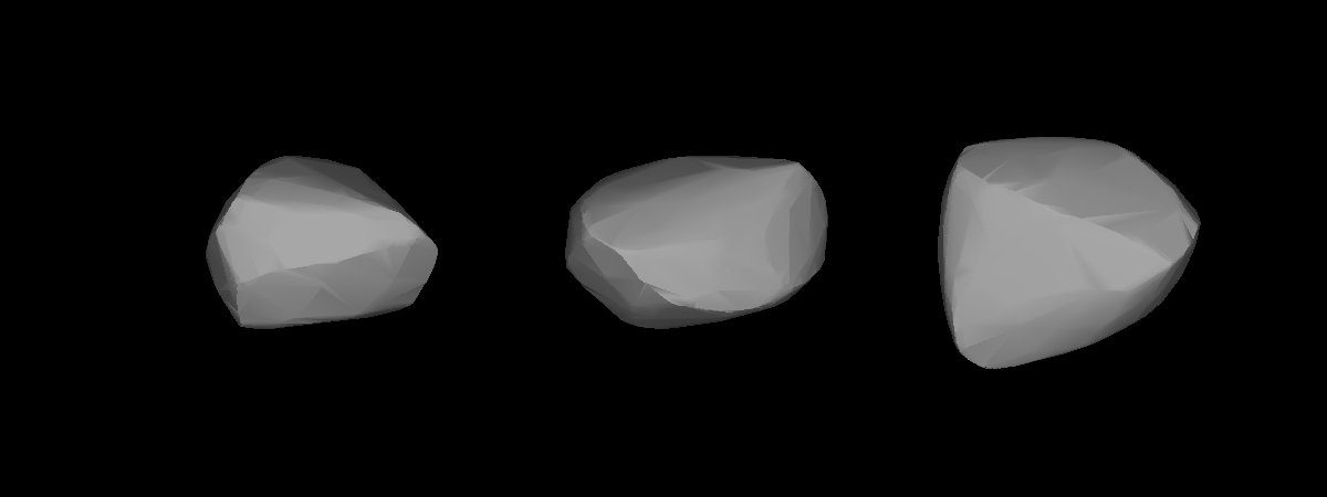 Model of asteroid 12 Victoria created using light-curve inversions.